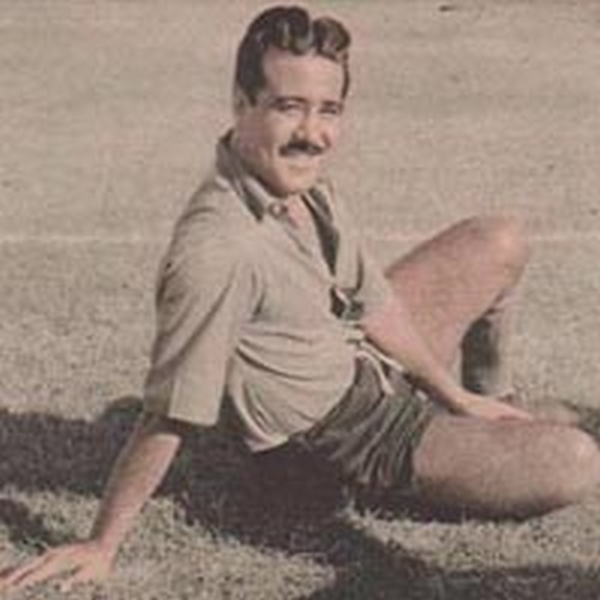 This is a photograph of Norberto Mendez taken during his time with Tigre in Argentina. He played his last game for the club in 1956